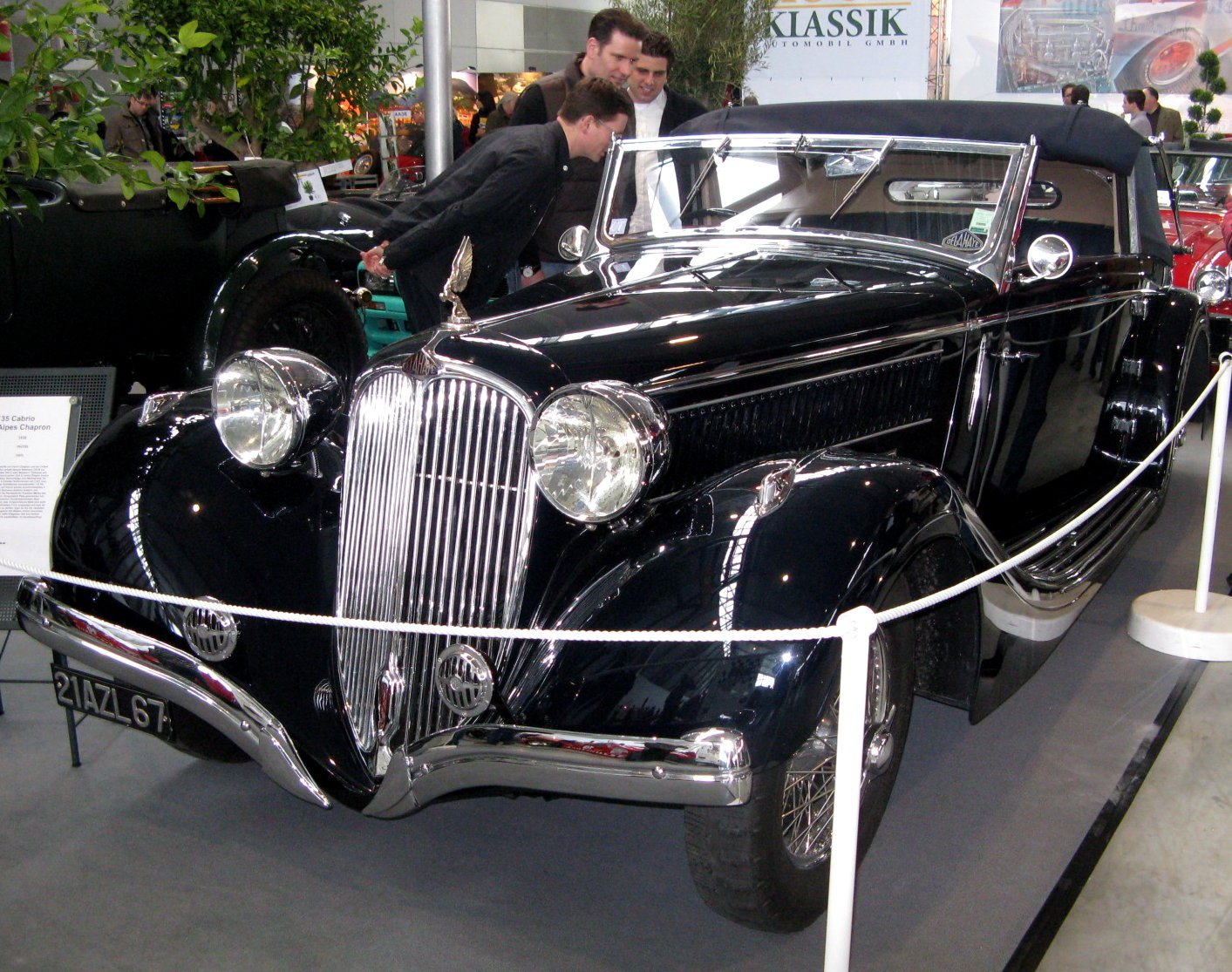 1936 Delahaye 135 Coupe-des-Alpes-Chapron